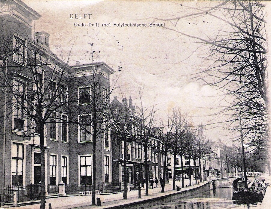 Oude Delft met Polytechnische School